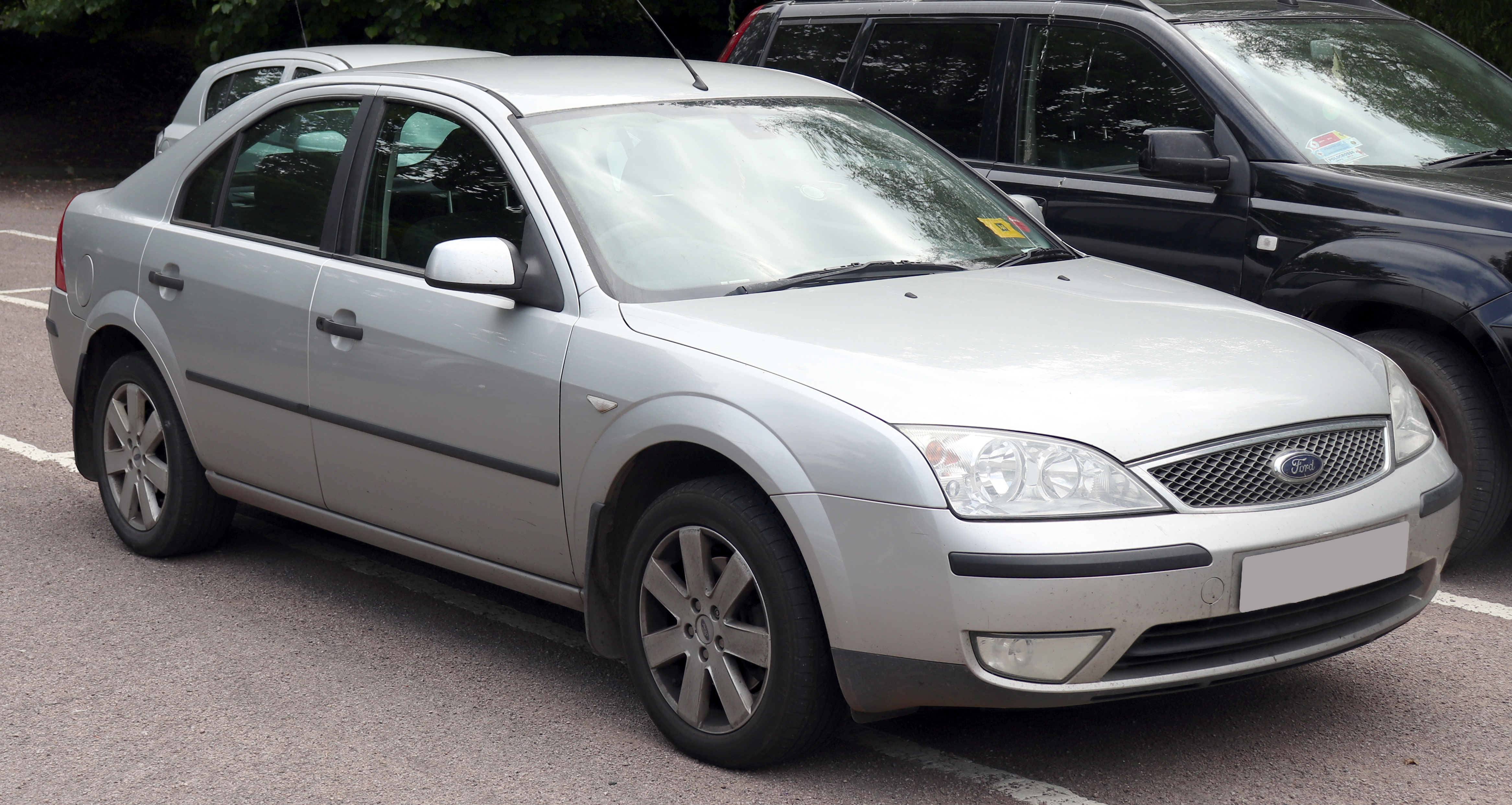 2005 Ford Mondeo Silver 1.8 Front Taken in Leamington Spa